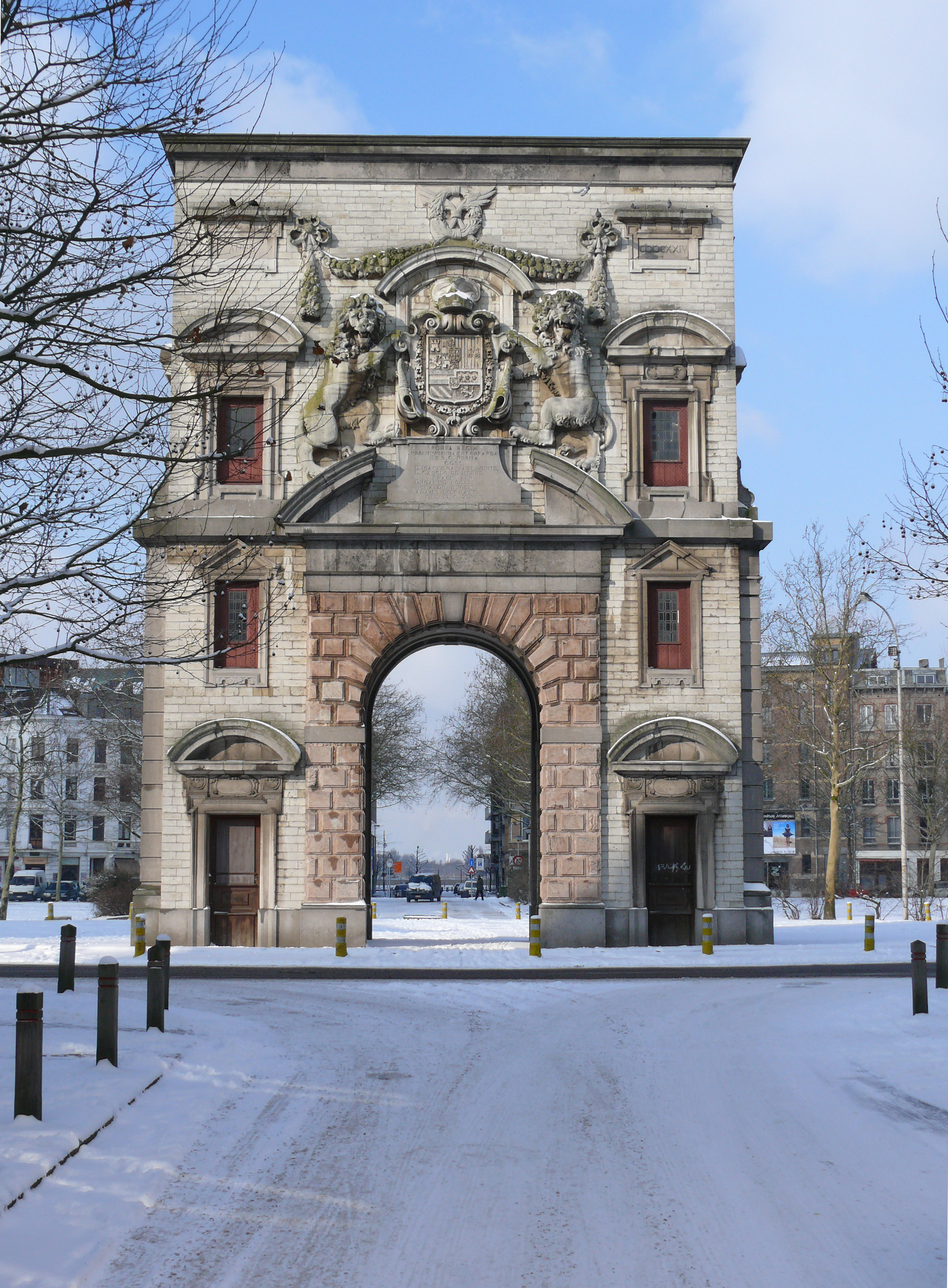 The Waterpoort, one of the old city gates of Antwerp.